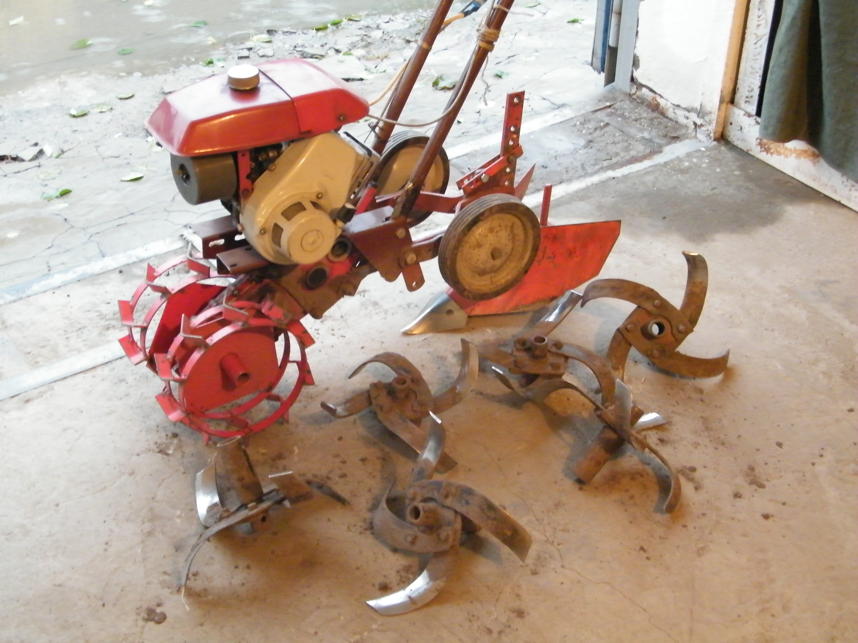 Krot from Russia